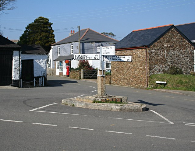 The crossroads in Pensilva village, Cornwall, UK, photographed in 2005